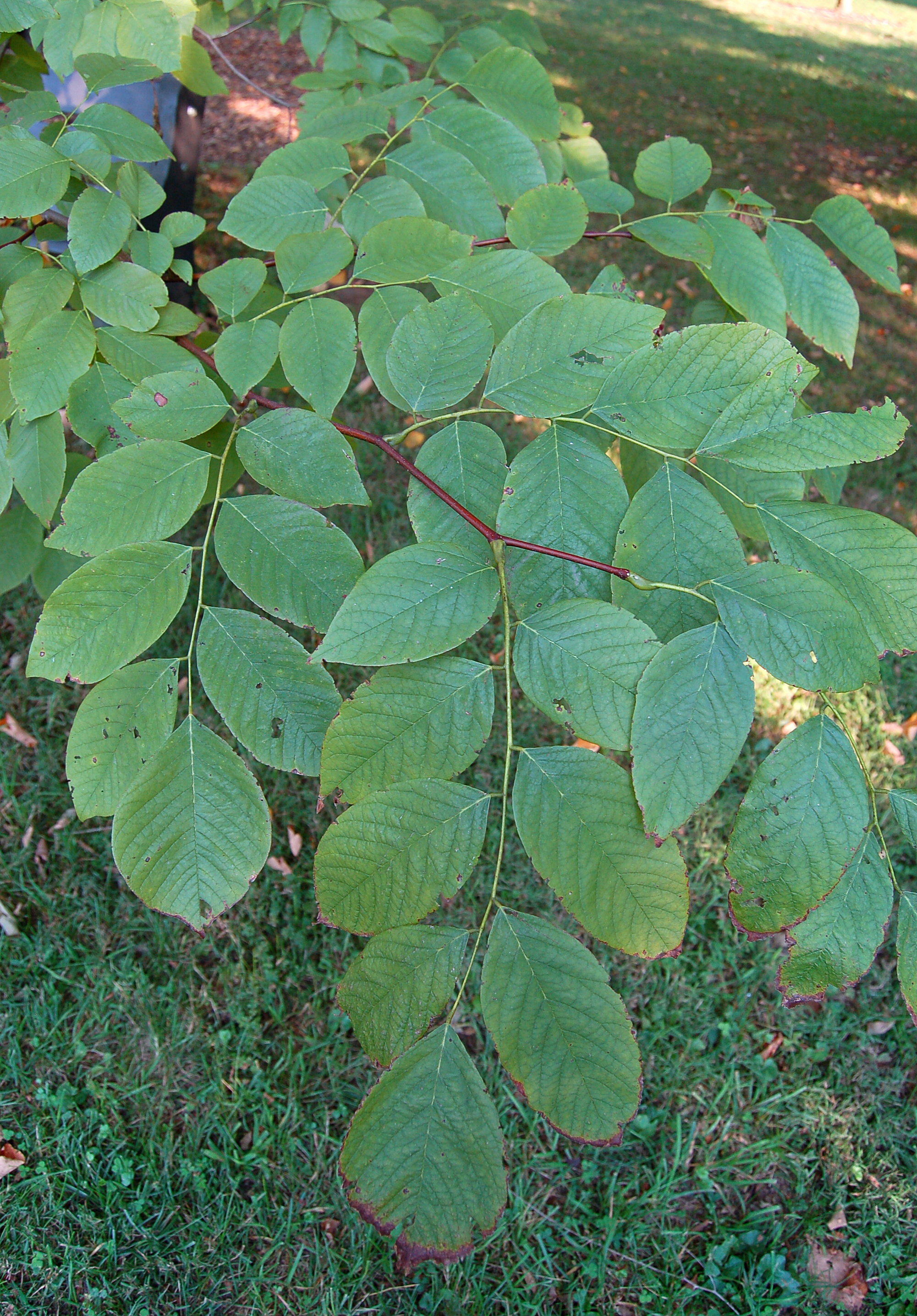 A photograph of a branch of the Yellowwood Tree (Cladrastis kentukea en ). Photo taken at the Tyler Arboretum where it was identified.